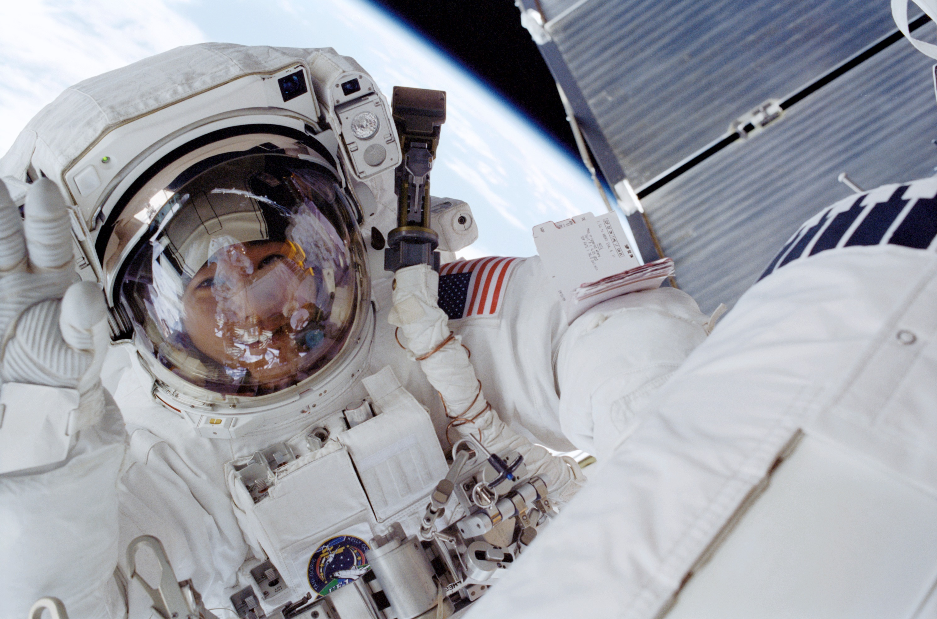 Astronaut Daniel M. Tani performing a spacewalk during the STS-108 mission. From NASA photo STS108-304-006 (10 December 2001) in public domain.